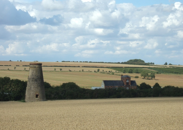 Former windmill and disused station between North and South Luffenham Lying amid wheatfields ready for harvest the old mill and former station hark back to an earlier age. The station was opened in 1848 and the line was run by London & North West Railway from 1851.